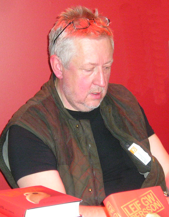 Photo taken at Gothenburg Book Fair 2005 by Lennart Guldbrandsson